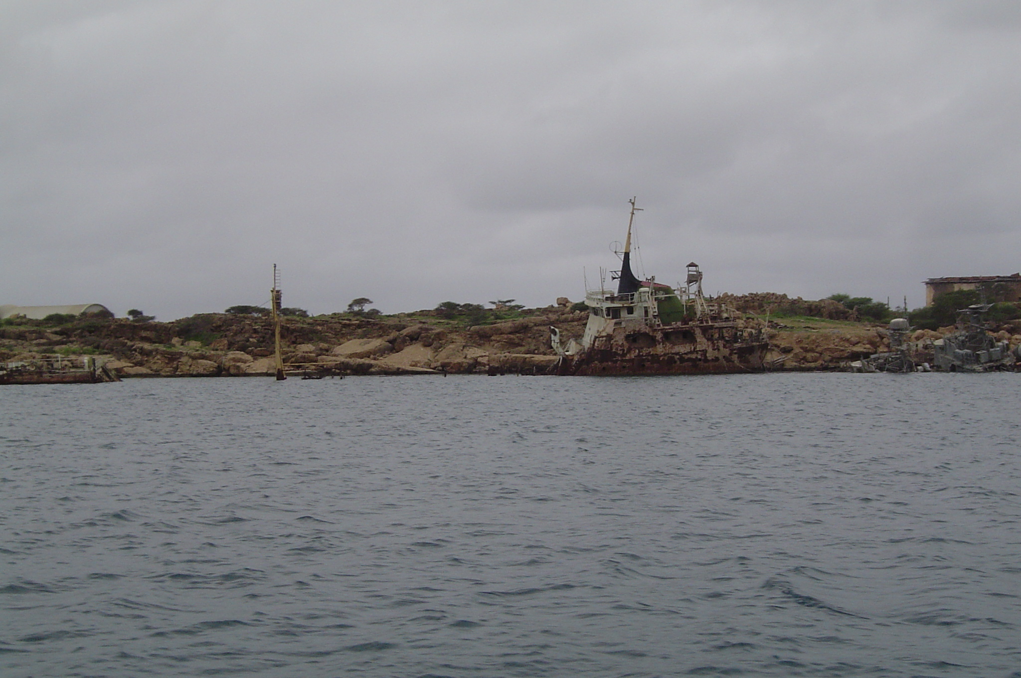 Sunken ships on Dahlak Island - a relic of Ethiopia Eritrea War